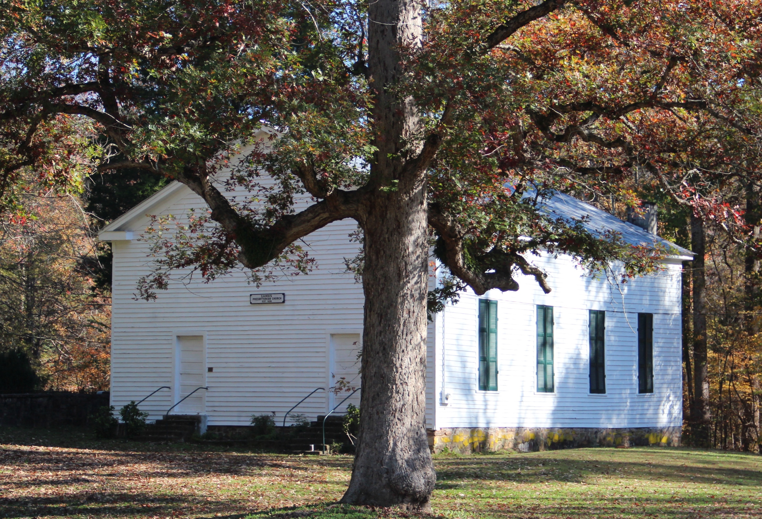 Sardis Presbyterian Church and Cemetery, Floyd County, GA